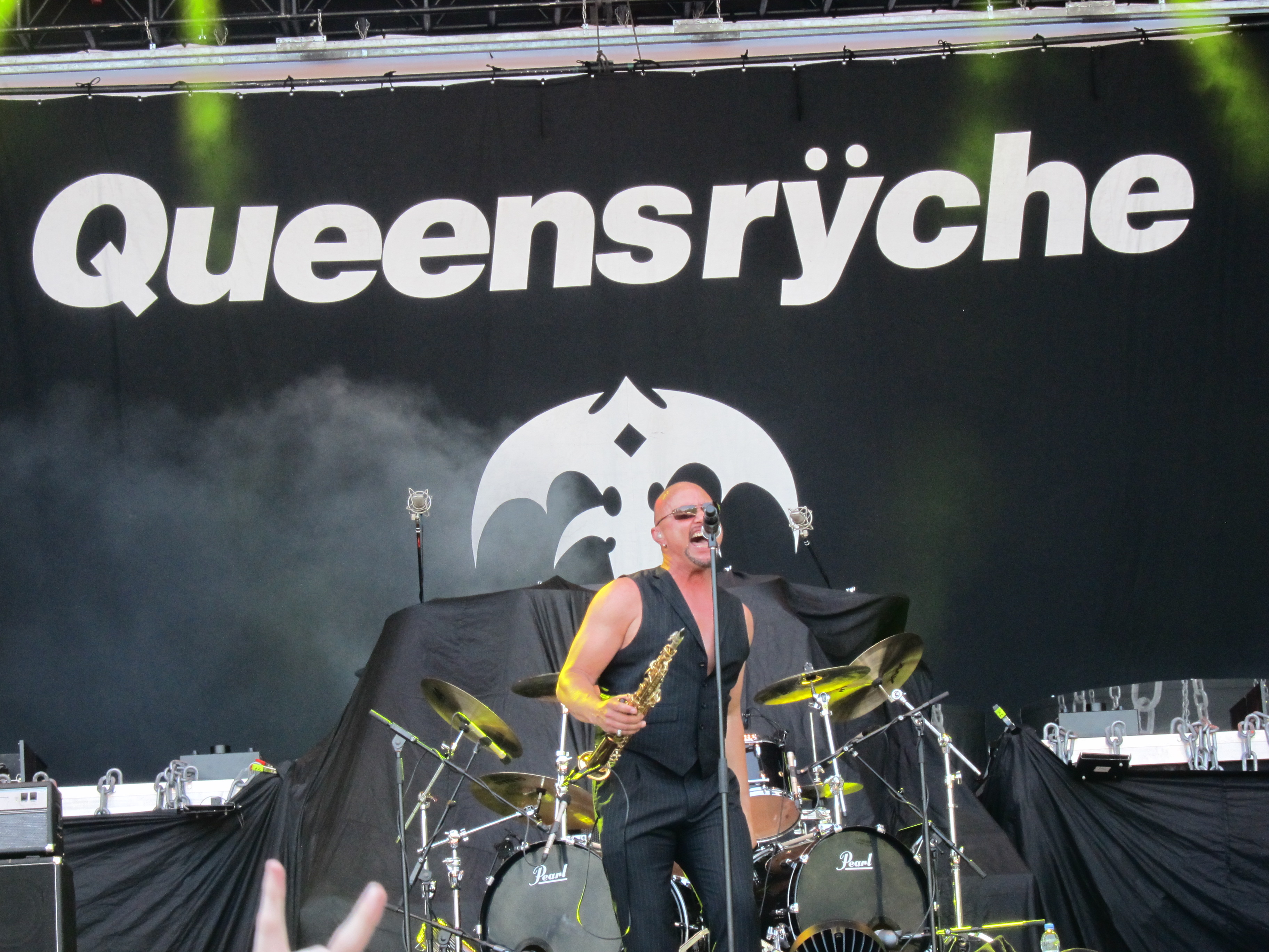 Queensrÿche performing at the Sauna Open Air Metal Festival in Tampere, Finland.